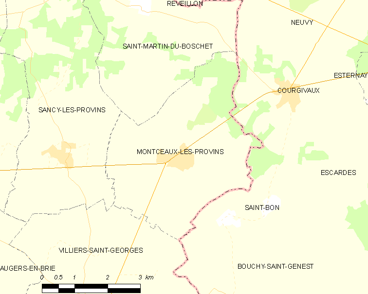 Map of French municipality Montceaux-lès-Provins